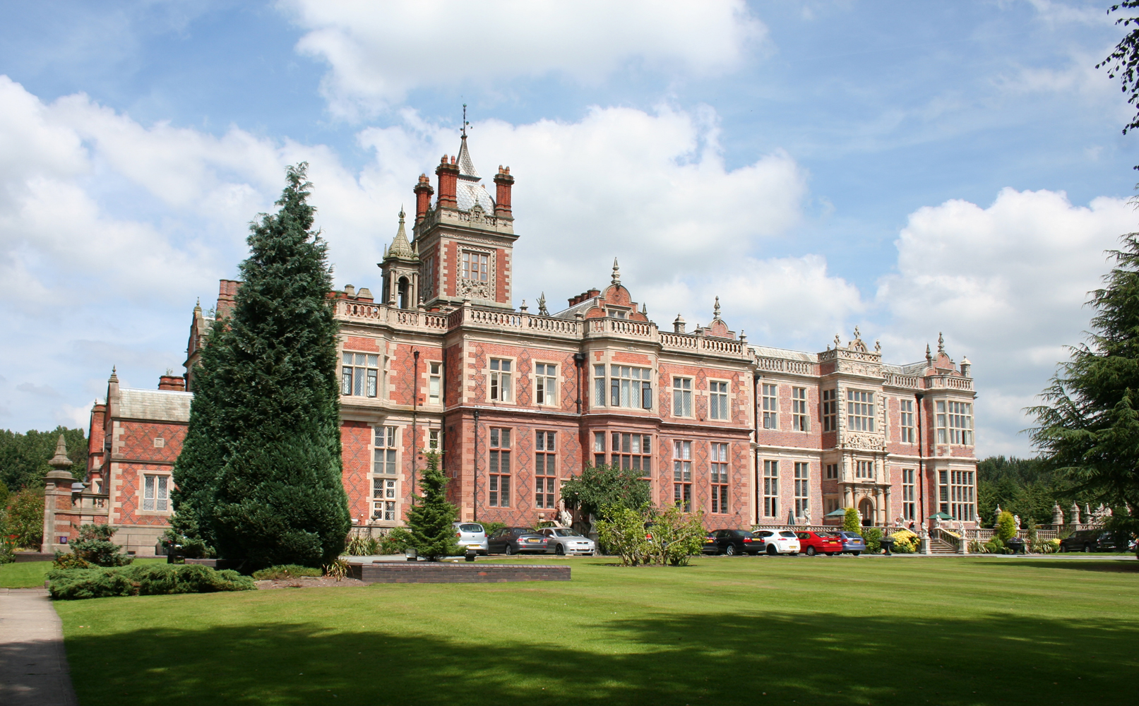 Crewe Hall, Cheshire. Front view from garden